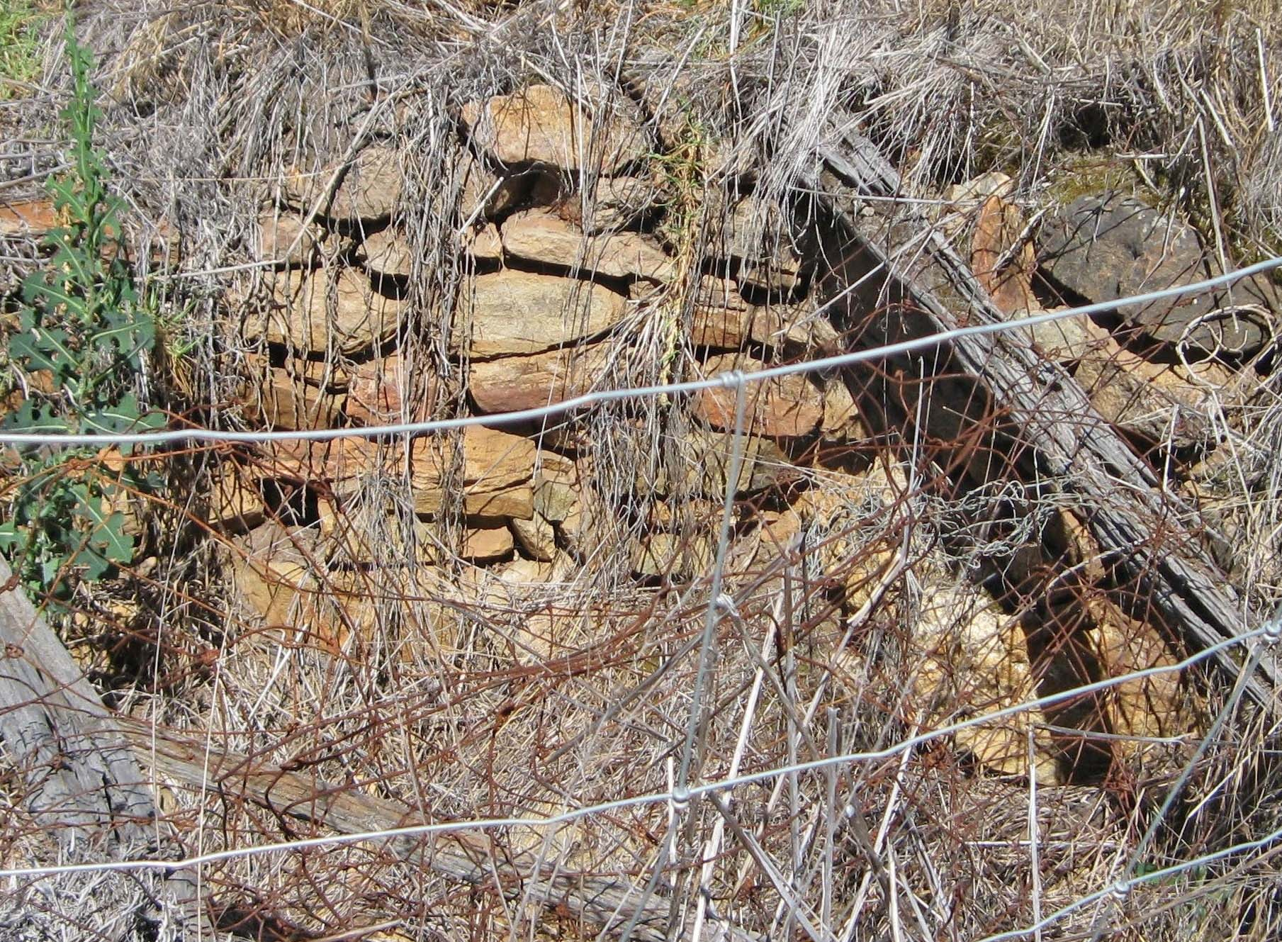 Remains of nineteenth century stone-lined well located in Class C Reserve 5610, West Toodyay, Western Australia